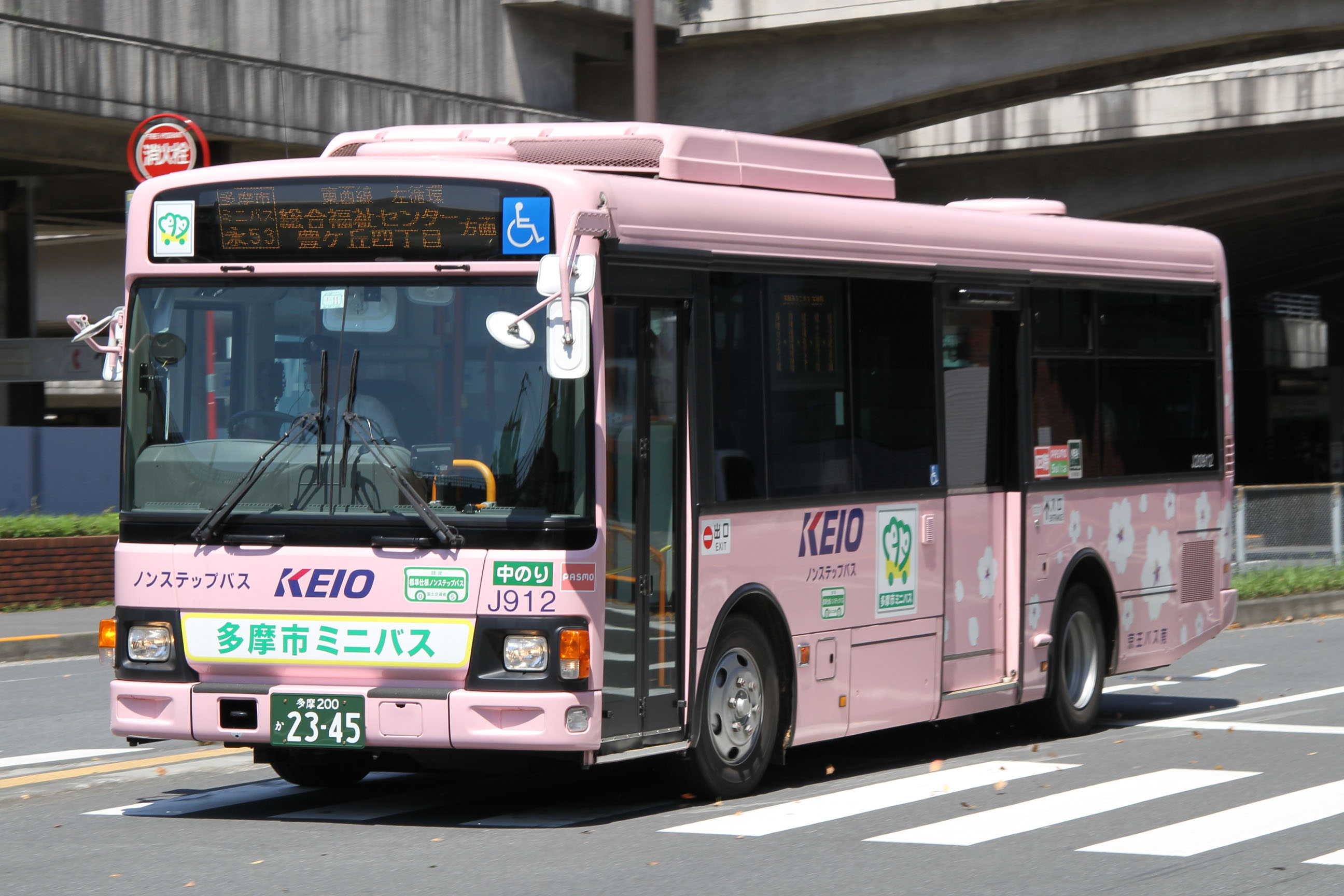 Tama City Community Bus "Tama City Mini Bus" 多摩市のコミュニティバス「多摩市ミニバス」